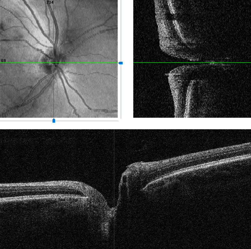 The healthy optic disc (optic nerve head) of a 24 year old male (cross-section view). This image is released to Wikimedia with patient consent. Imaged in-vivo with an Optovue iVue Spectral Domain Optical Coherence Tomographer (SD-OCT) at the office of Drs. Harry Wiessner, Steven Davis, Daniel Wiessner, and Eric Wiessner in Walla Walla, WA, USA.